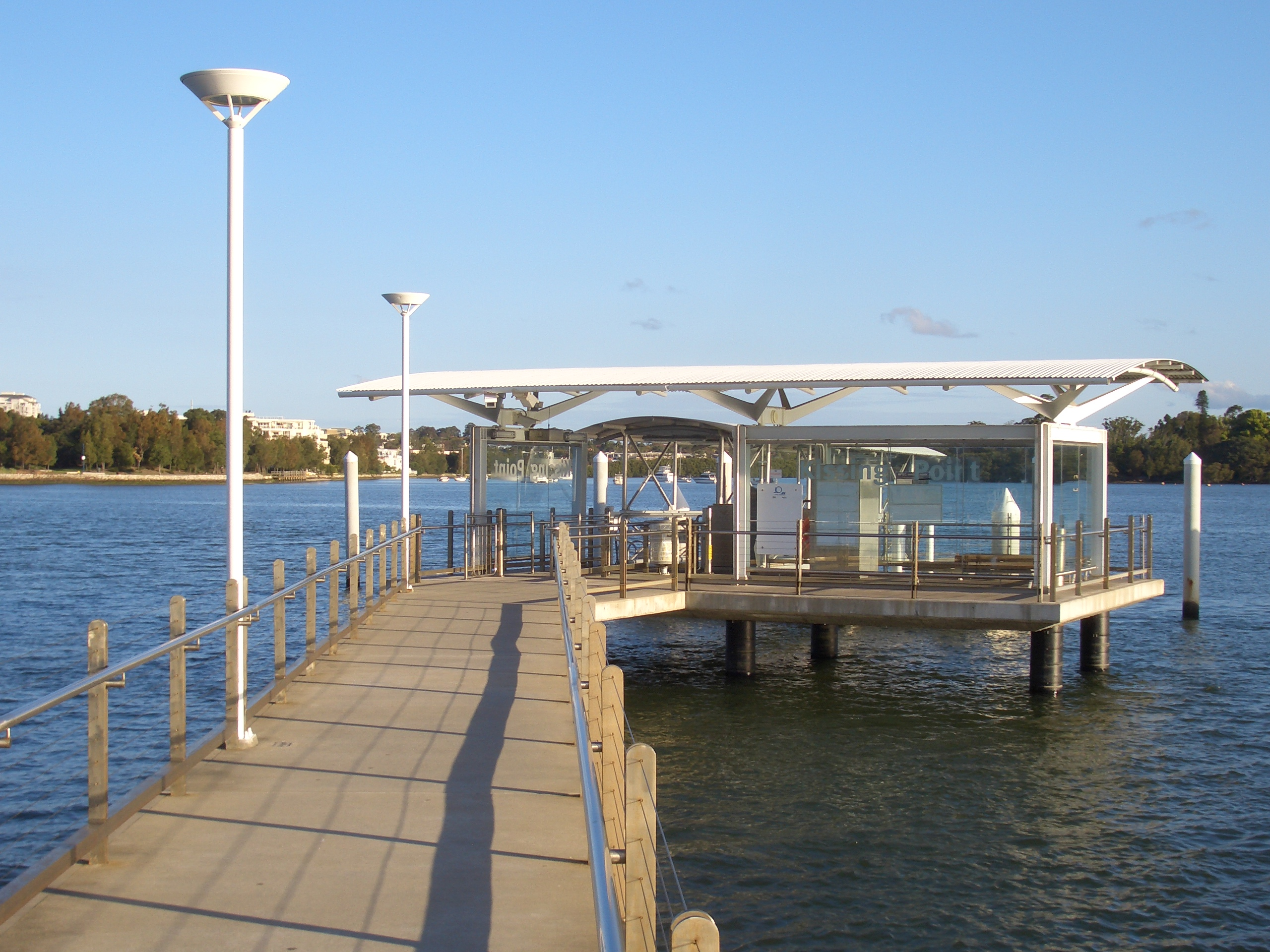 Kissing Point, Putney, Sydney